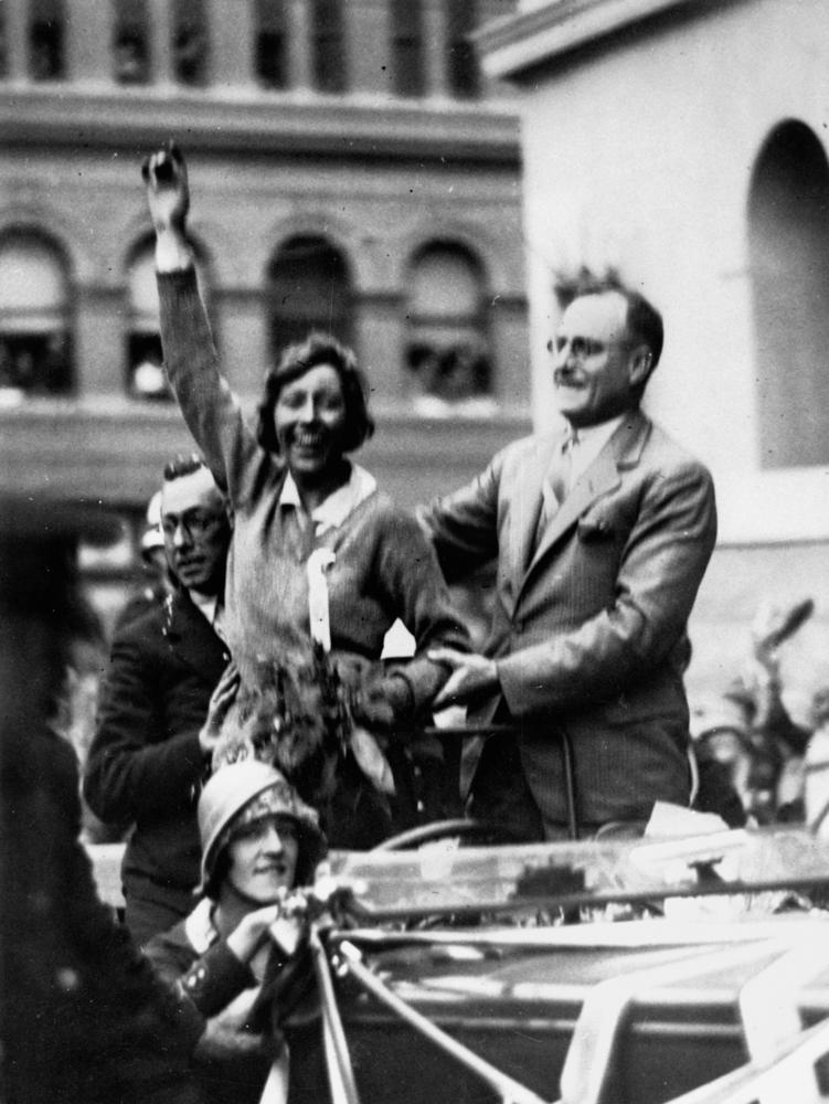 Amy Johnson arrives at City Hall to a rousing reception, Brisbane, May 1930 This photo shows the arrival of Amy Johnson at City Hall where thousands of people were waiting. In the motor vehicle with Amy are Captain Byrd (left) and Mr. Westcott (standing). Driver is Janet Burgh and the vehicle is a Morris Oxford. The car was filled with flowers that people had thrown in as Amy drove by. (Description supplied with photograph).